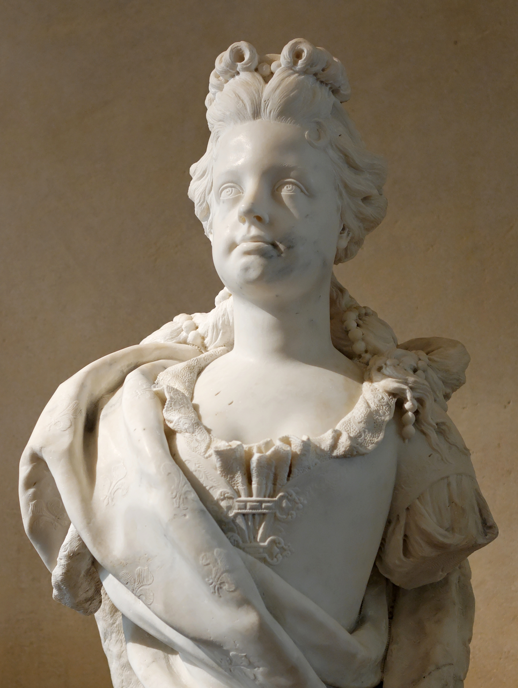 Portrait of Marie-Louise Gabrielle de Savoie, wife of King Philip V of Spain.